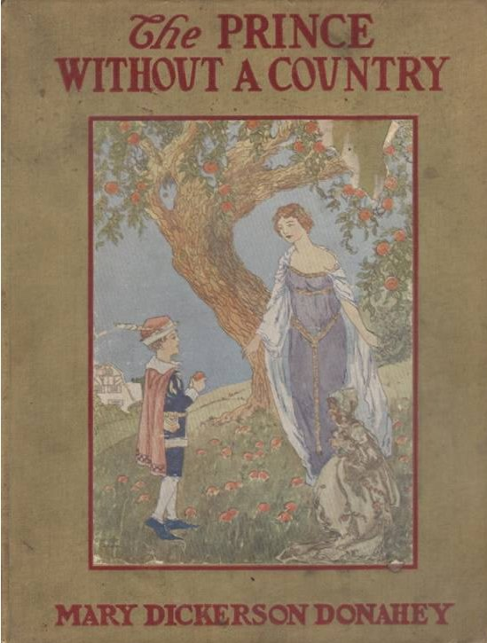 Donahey book cover "The Prince Wihout A Country"